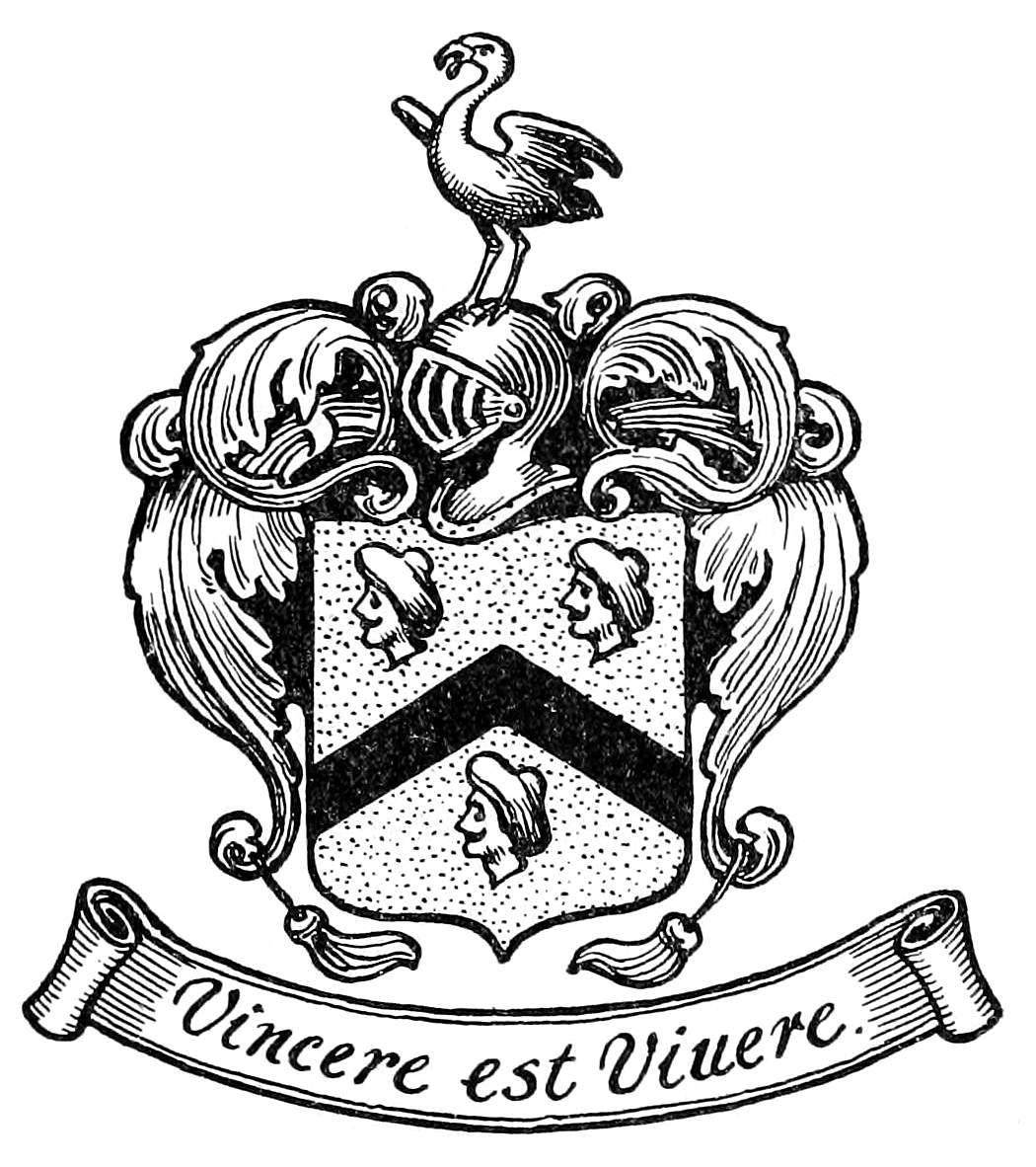 The coat of arms belonging to Captain John Smith of the Virginia Colony. (Image modifications: cropped, grayscale, brightness and contrast level adjustments)